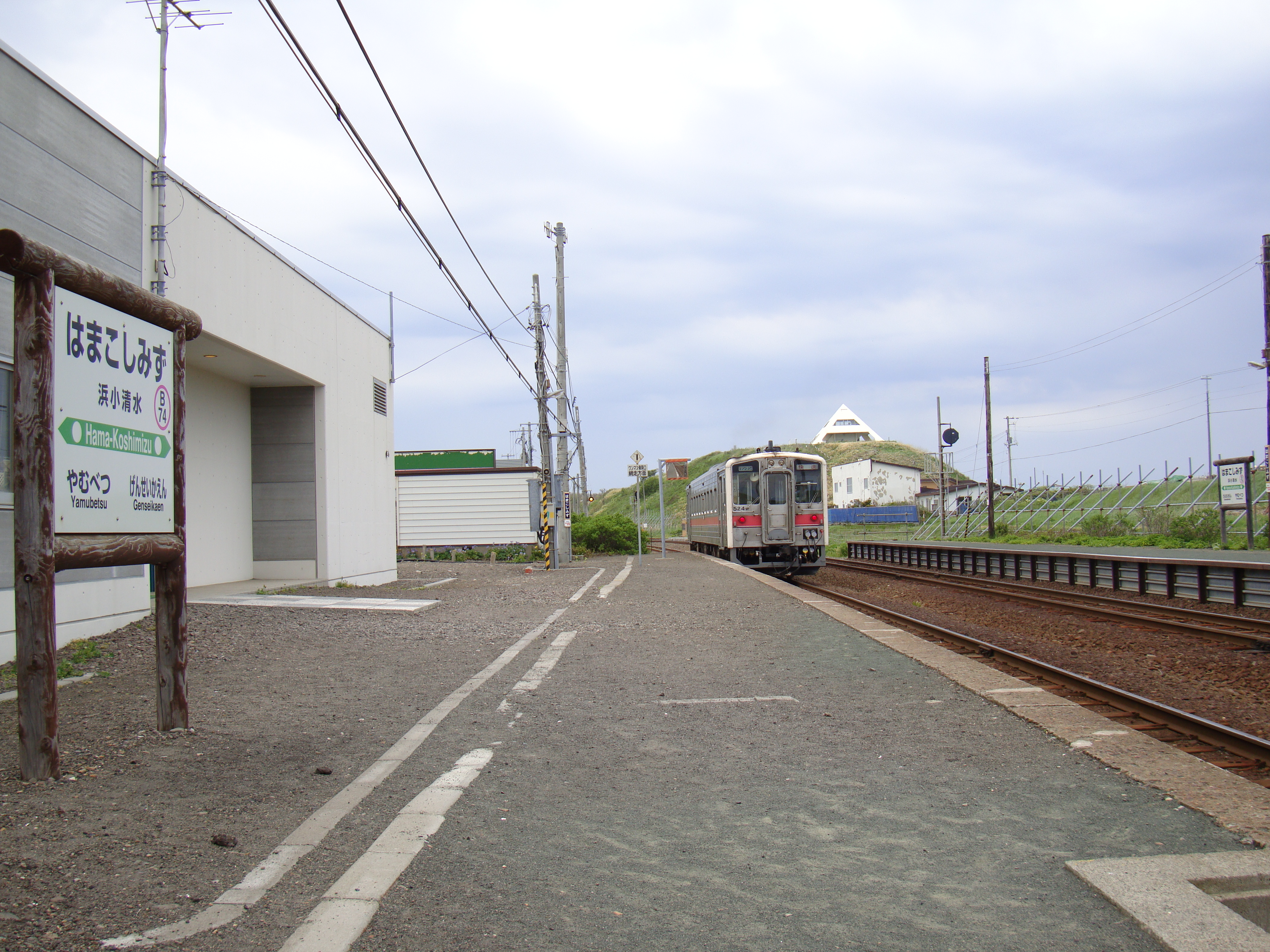 Hama-Koshimizu Station